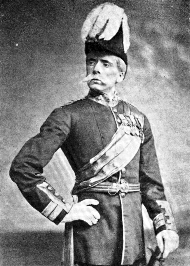 1880 publicity photograph of George Grossmith in The Pirates of Penzance. Public domain. Scanned by uploader from reproduction in Mander, Raymond and Joe Mitchenson, A Picture History, Gilbert and Sullivan, Vista Books, London, 1962.